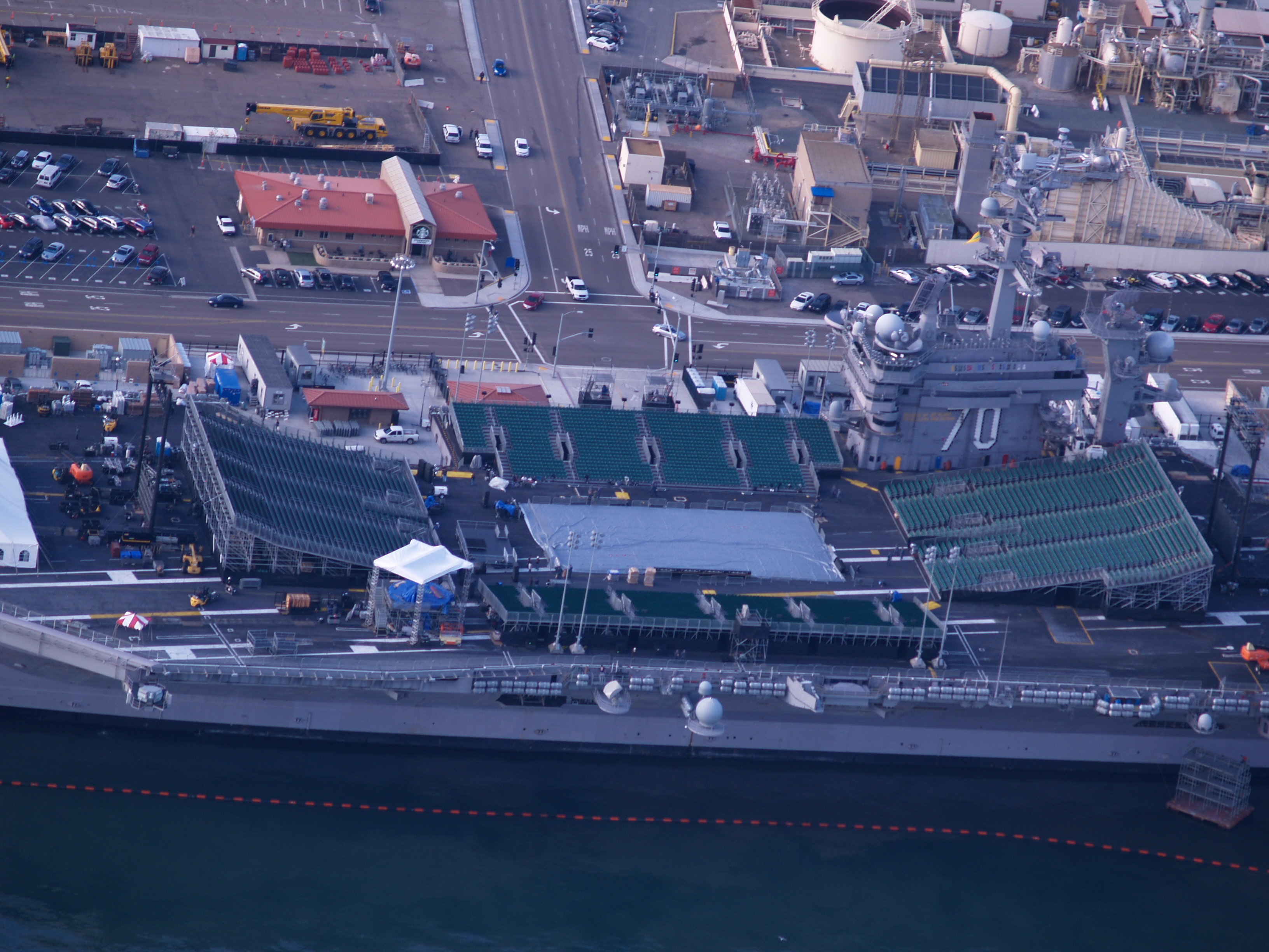 The deck of the USS Carl Vinson set up for a college basketball game between Michigan State and North Carolina. Please acknowledge "Phil Konstantin" as the creator of this photograph.